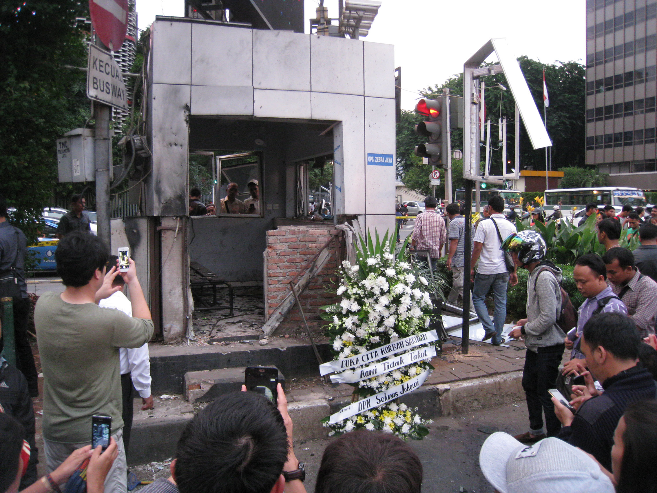 Condolences flower in front of damaged Police Box caused by suicide bomb attack in front of Sarinah Building, Jalan MH Thamrin. Location of Sarinah-Starbucks terrorist attack in Central Jakarta, 14 January 2016. The text: "Duka Cita Korban Sarinah, Kami Tidak Takut, dari DPN Seknas Jokowi" translation: "Condolences for Sarinah victims, We are Not Afraid, from DPN Seknas Jokowi".